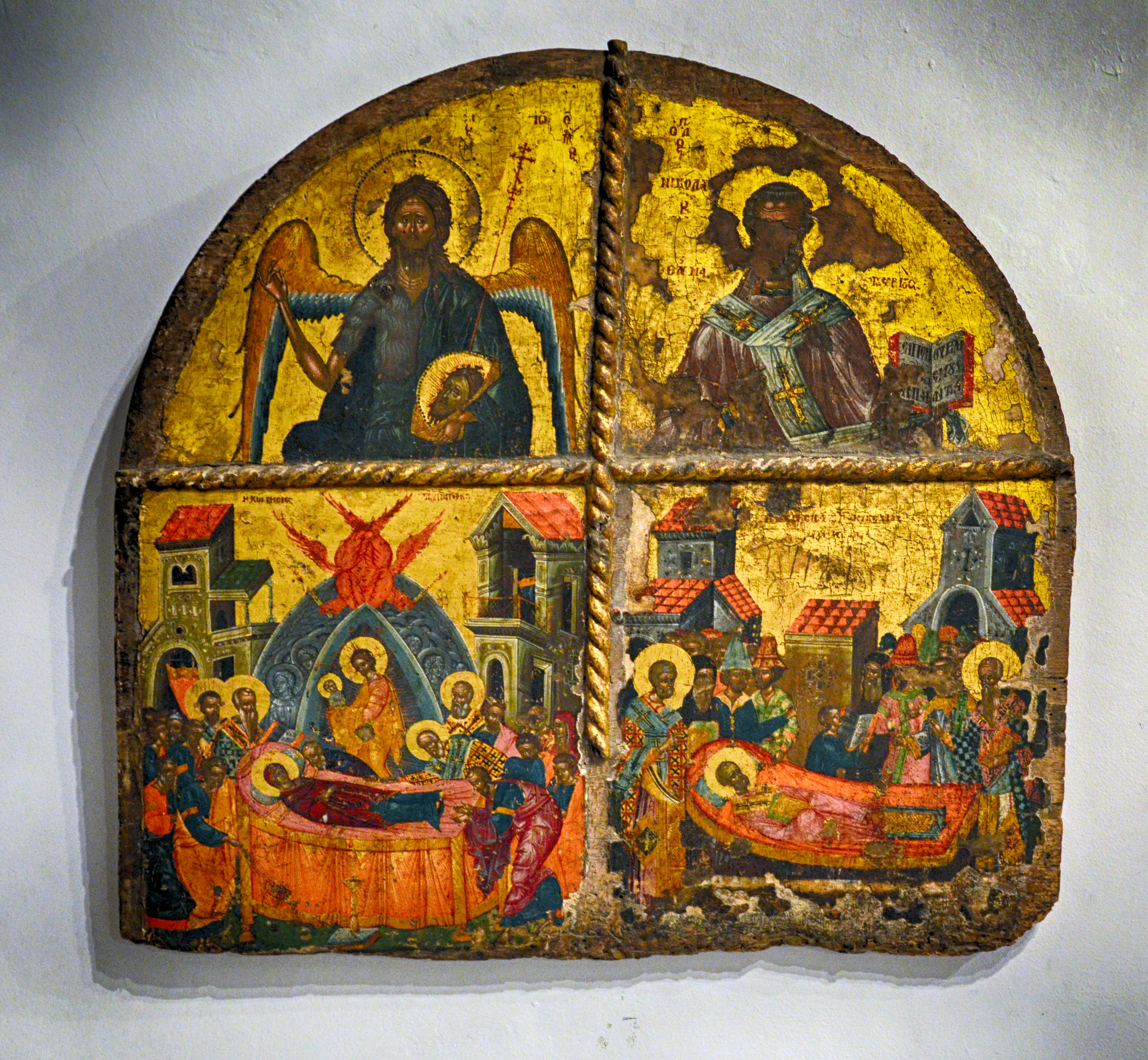 Iconostase of four painted by Onufri in the 16th century. The scenes are: John Baptist; St Nicholas; Dormition of Virgin Mary; Dormition of St Nicholas. Exhibited in the Onifri Museum, Berat.